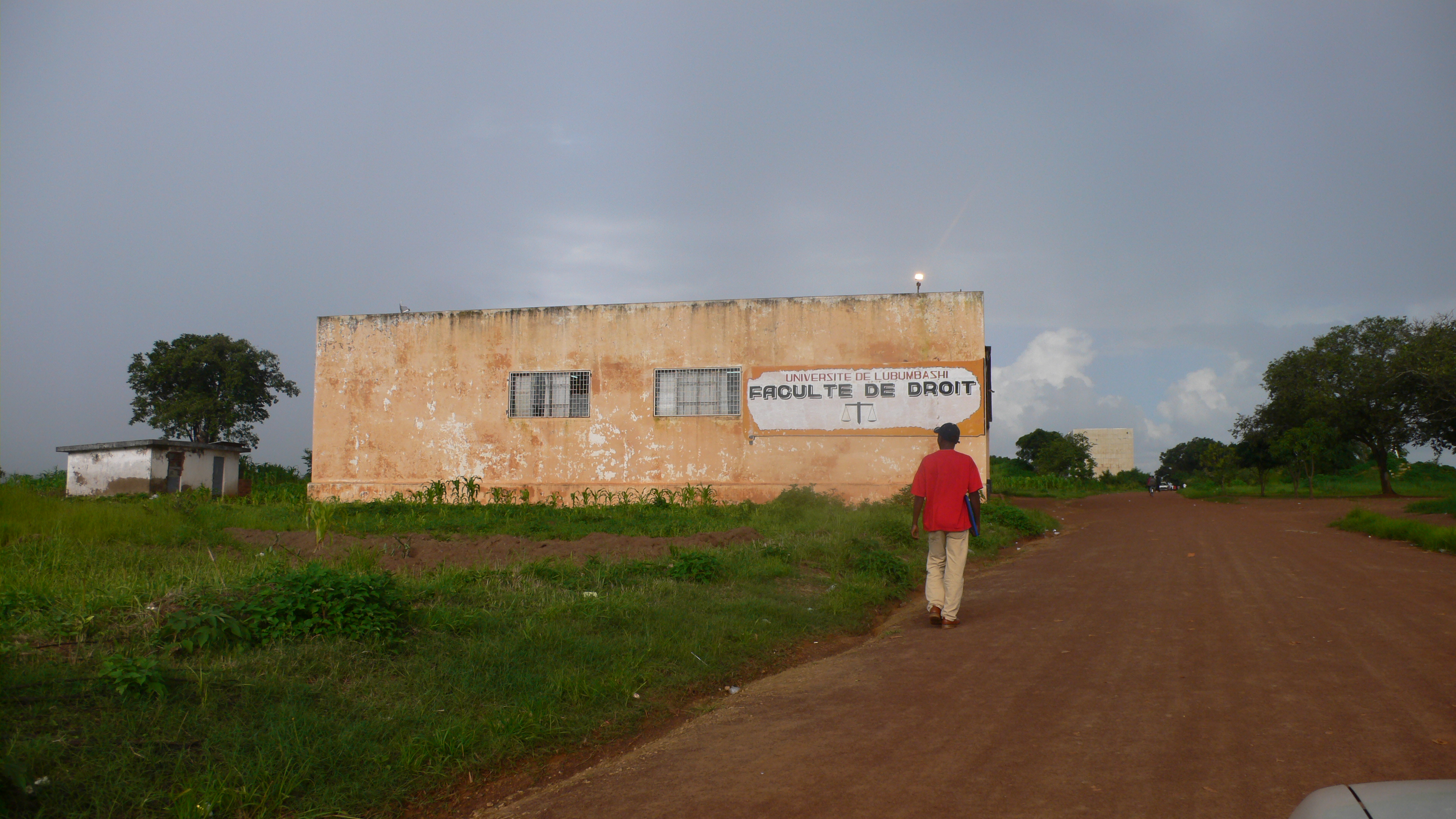 faculté de droit, University of Lubumbashi, DRC